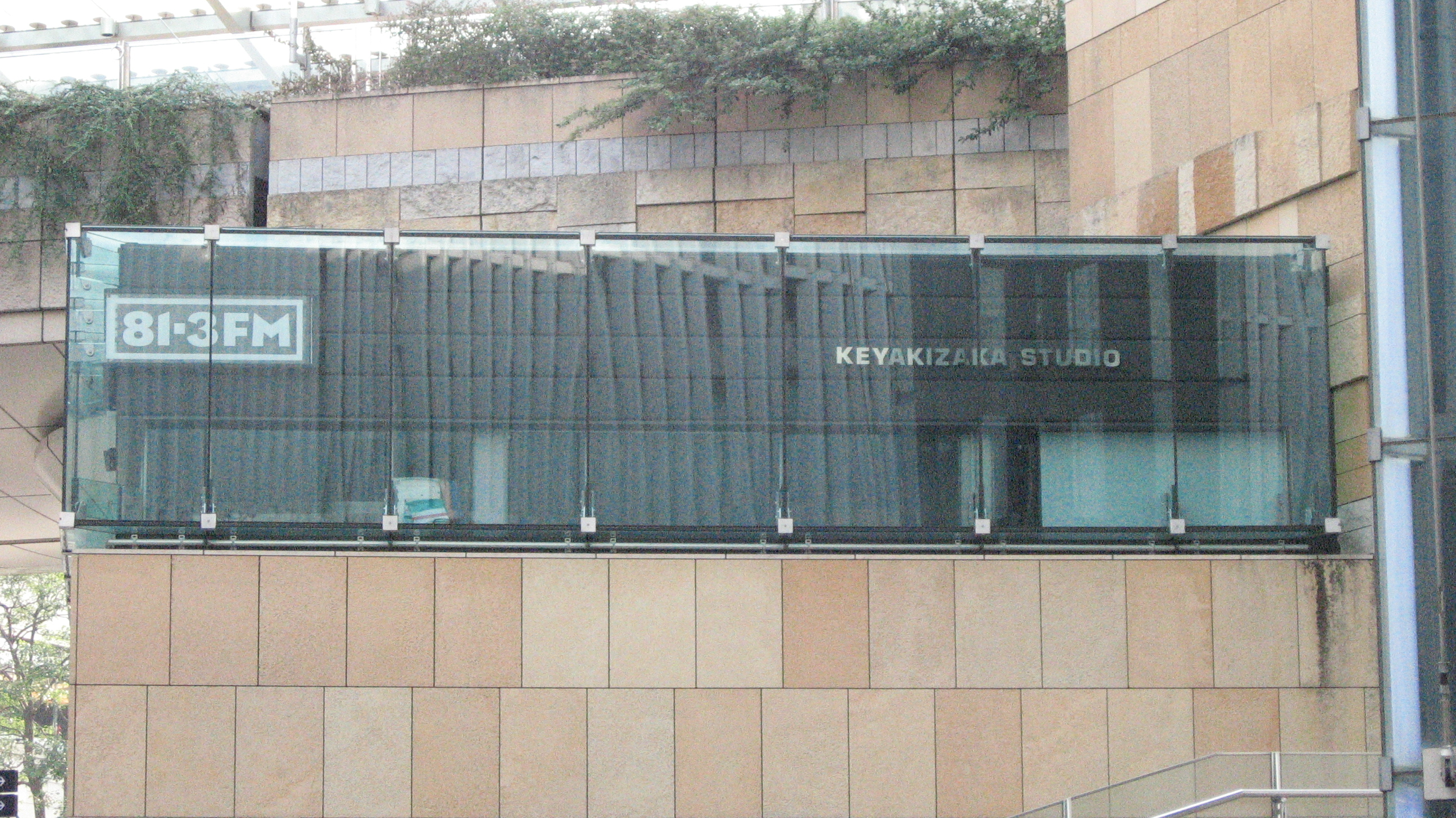 J-WAVE Keyakizaka Studio.